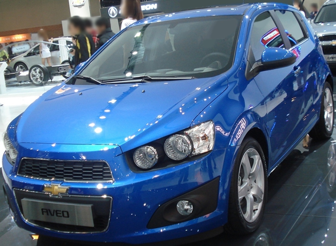 Chevrolet Aveo